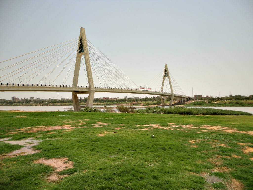 ahwaz